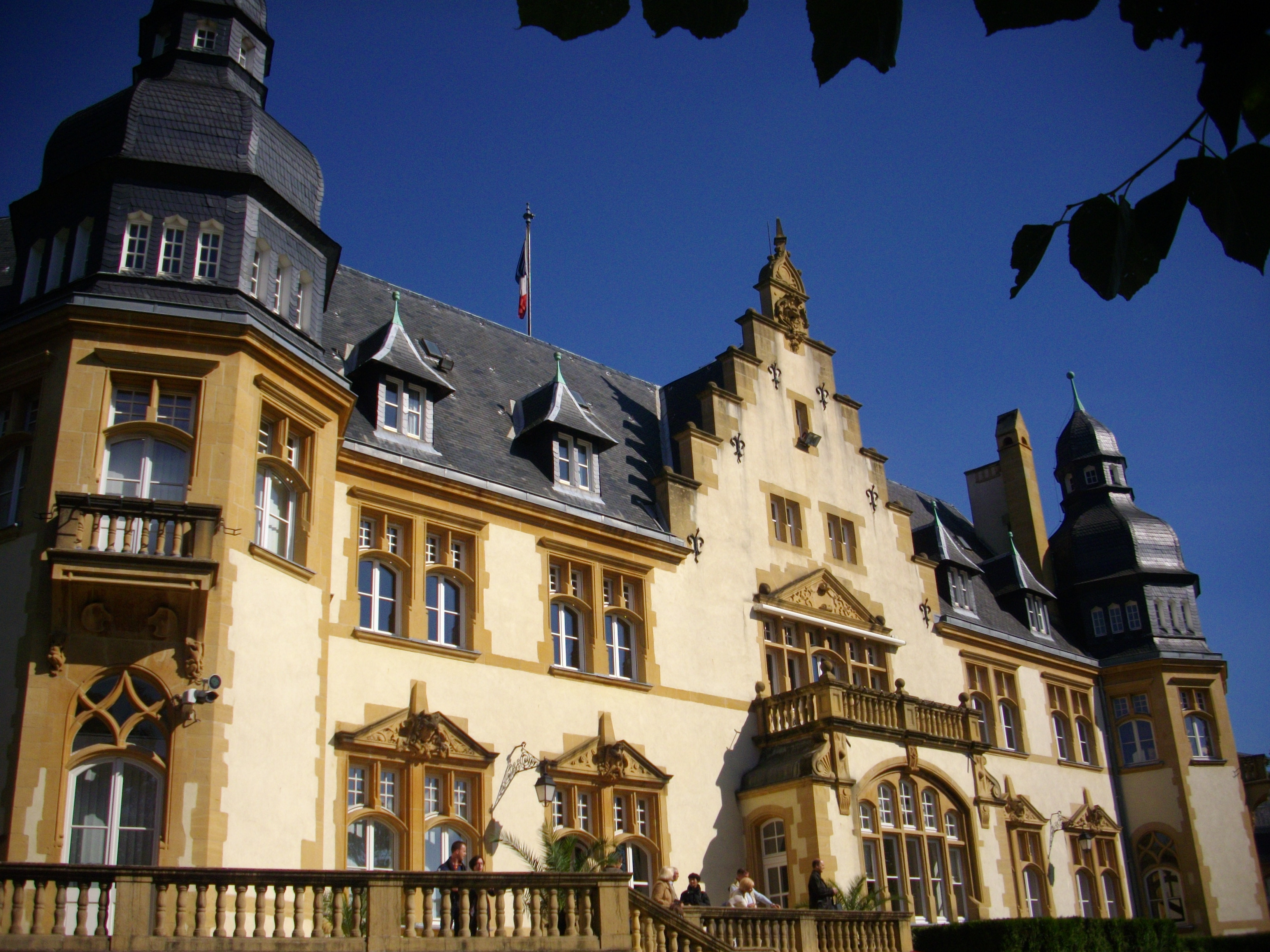 South-western front of the governor's palace in Metz (France), viewed from its gardens (european heritage days 2010).